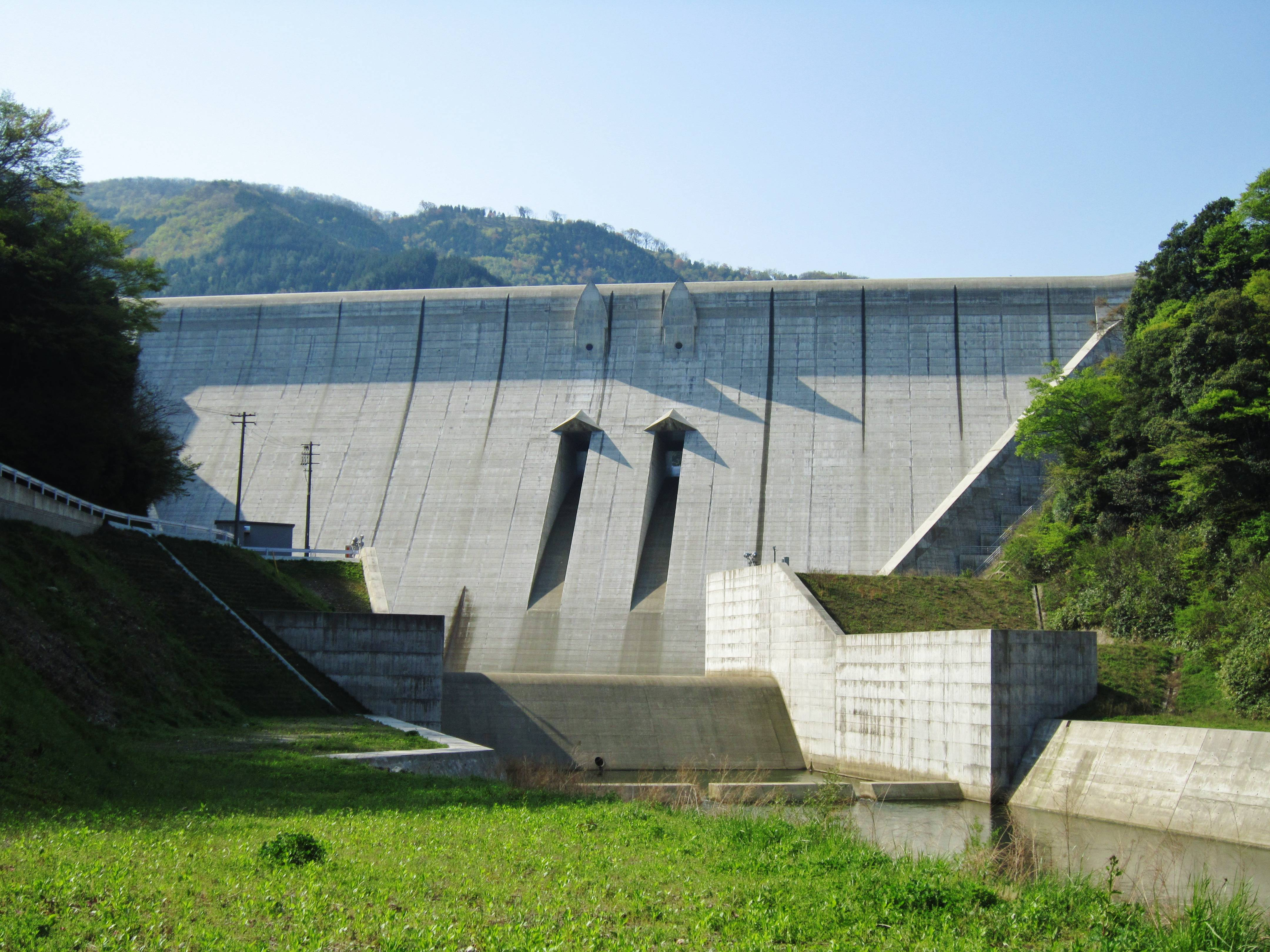 Shitsumi Dam.